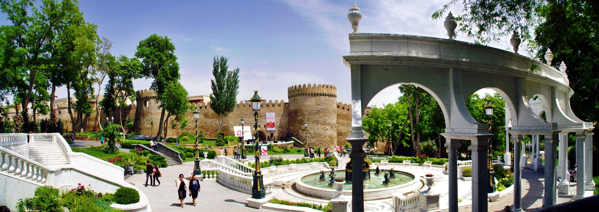 Baku Filarmonia Park